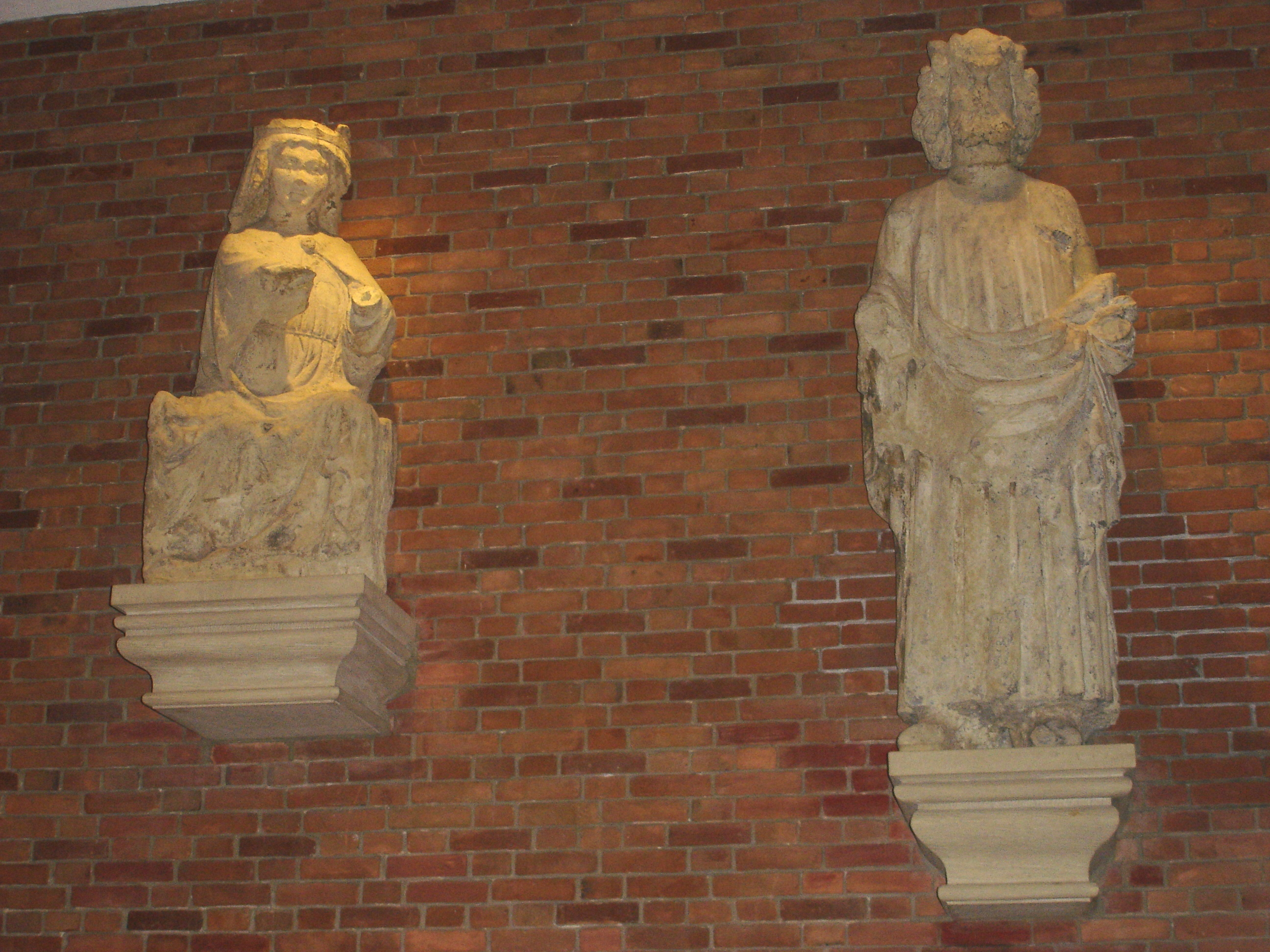 Old statues of the gable now shown in the citizens' hall of the historical city hall in Münster, Westphalia, Germany